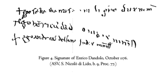 Signature of Enrico Dandolo, October 1176